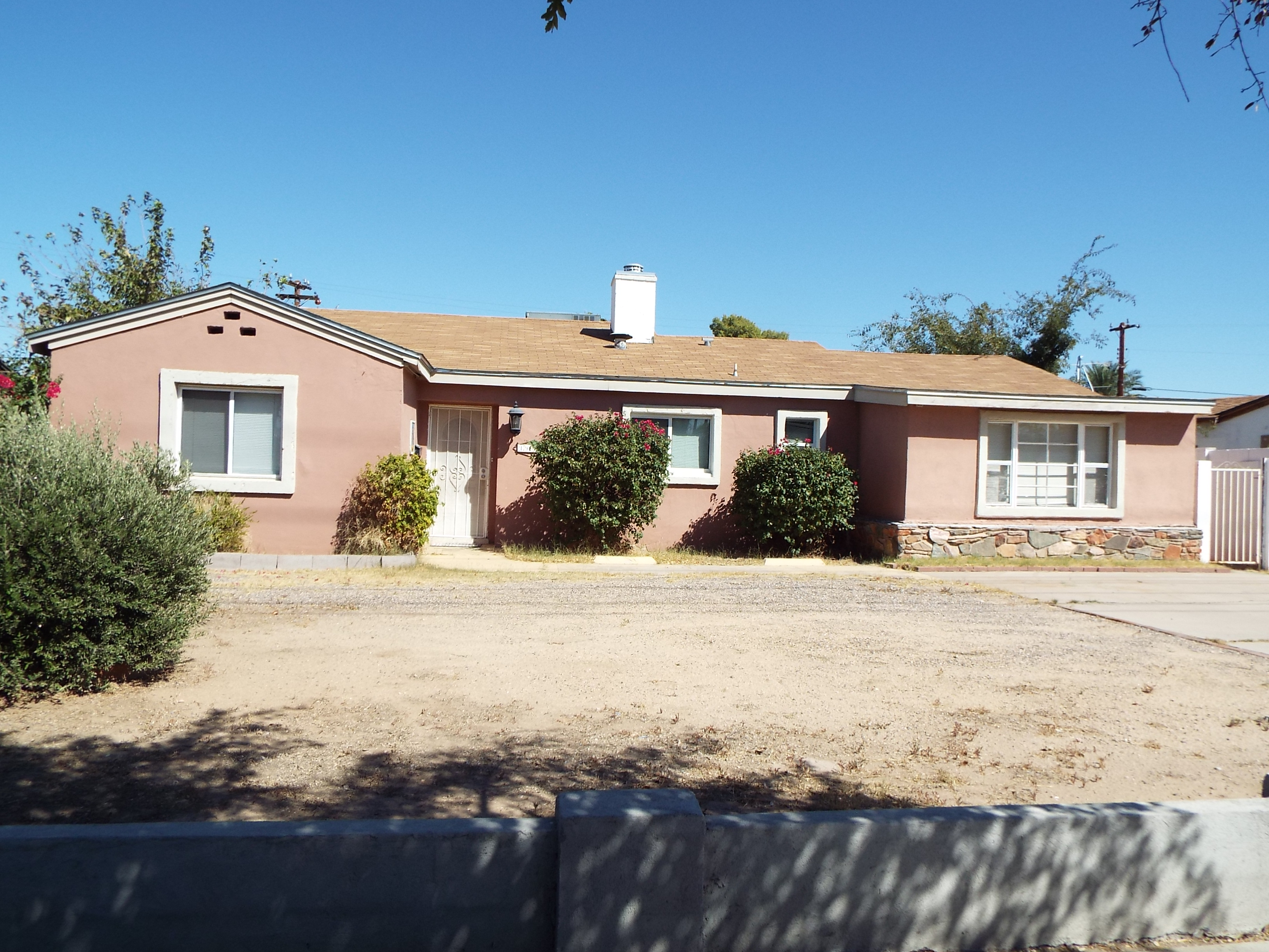 The Dr. Lincoln Johnson Ragsdale, Sr. House was built in 1941 and located at 1606 West Thomas Road in Phoenix, Az. Ragsdale was an influential leader in the Phoenix Civil Rights Movement. He played an instrumental role in the reforms made of voting rights and the desegregation of schools, neighborhoods and public housing. The house is considered historic by the City of Phoenix African-American Historic Property Survey. [1]